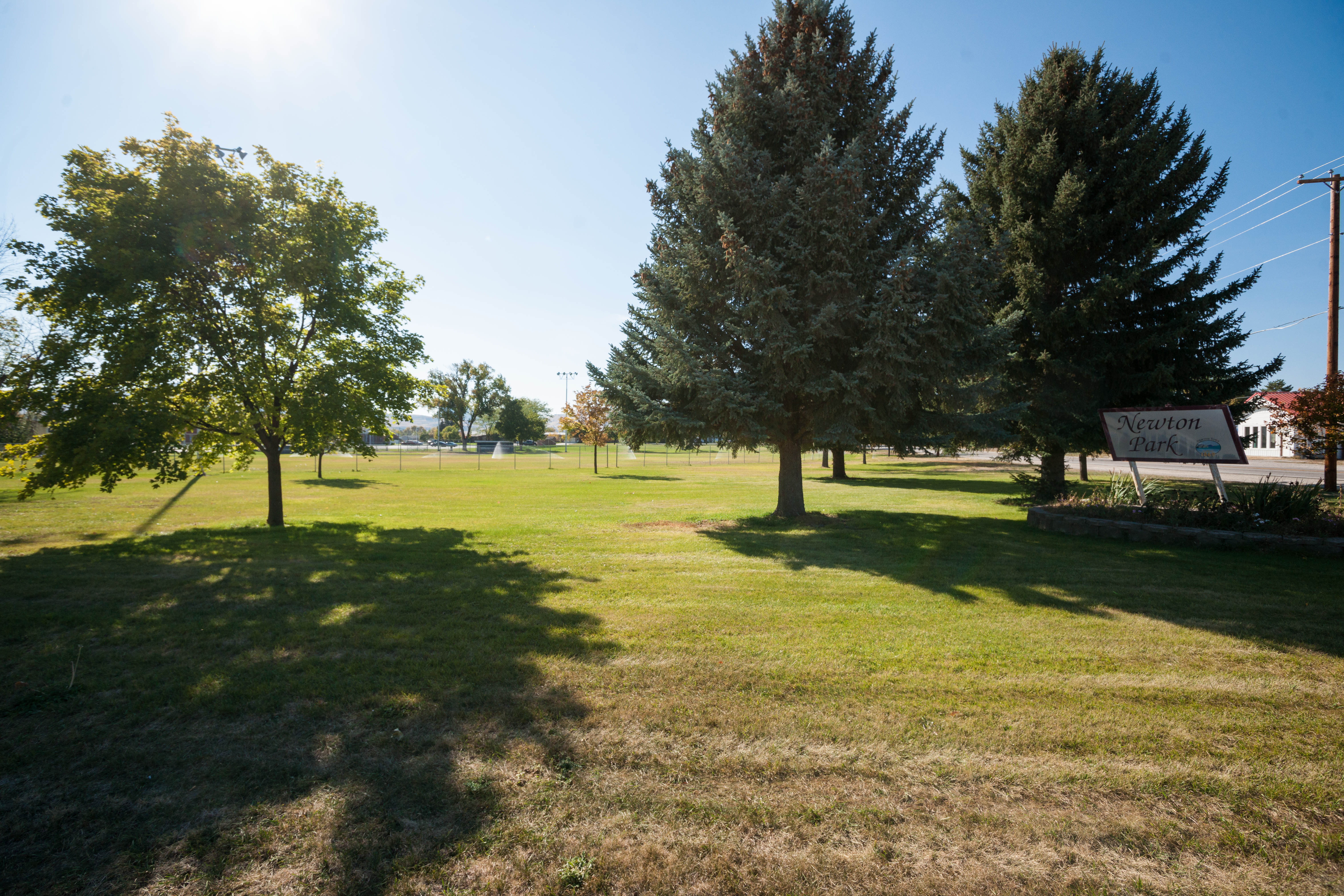 From